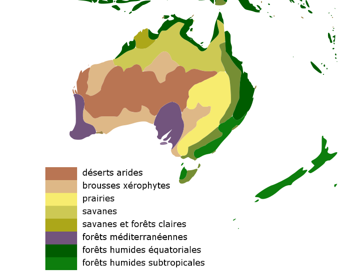 Zoom on biomes in Australia from Sten Porse's map of biomes